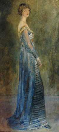 Consuelo Vanderbilt